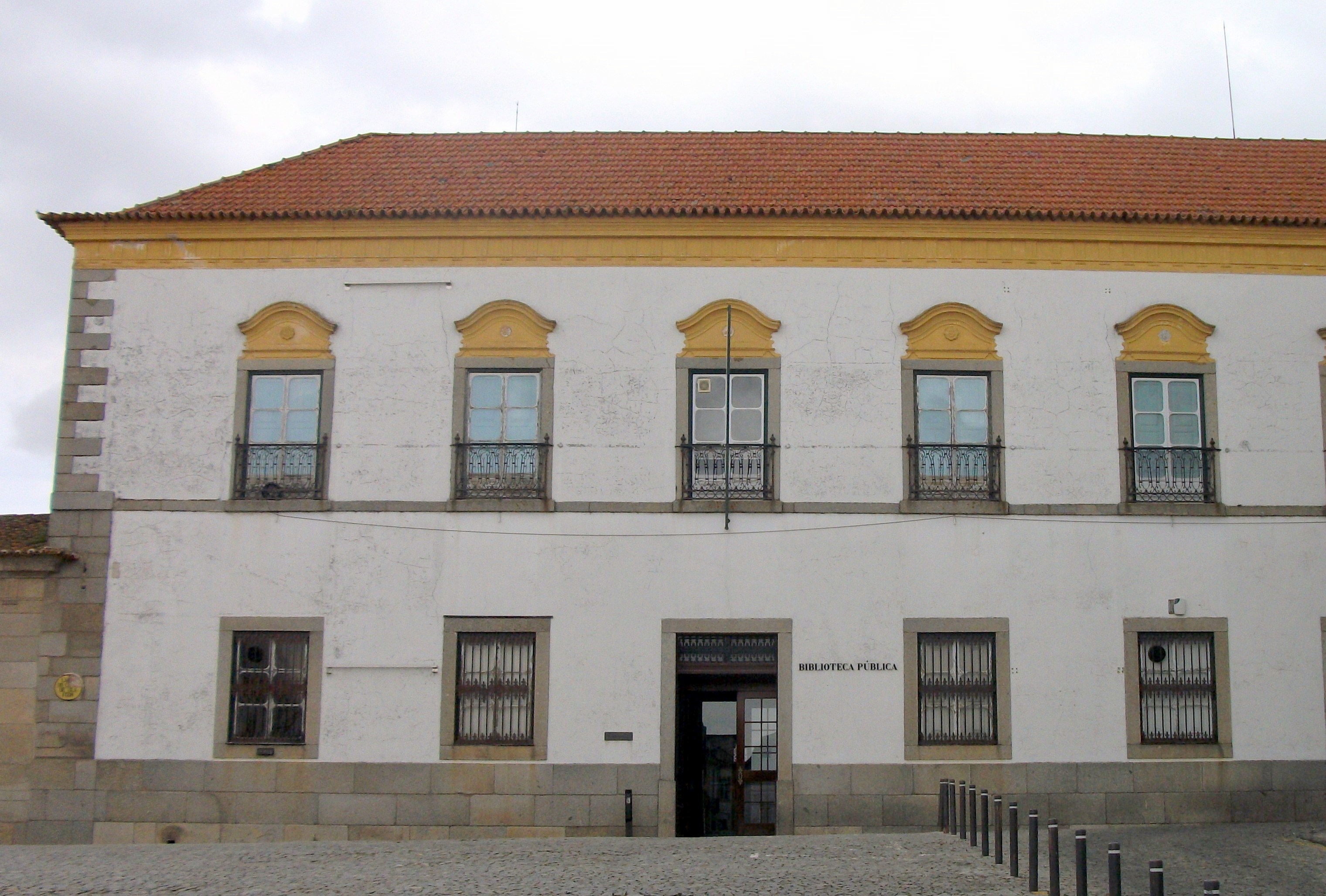 Public Library, Évora, Portugal